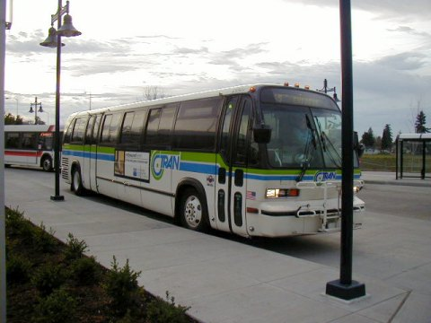 A C-Tran express bus parked at Parkrose/Sumner Transit Center in Portland, Oregon. The bus is a General Motors RTS, built in 1982 and now retired.